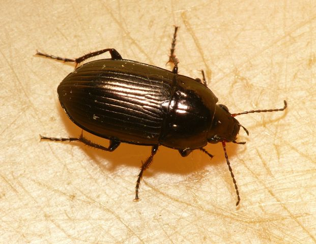 Amara spreta, location: The Netherlands - Rhenen - Blauwe Kamer